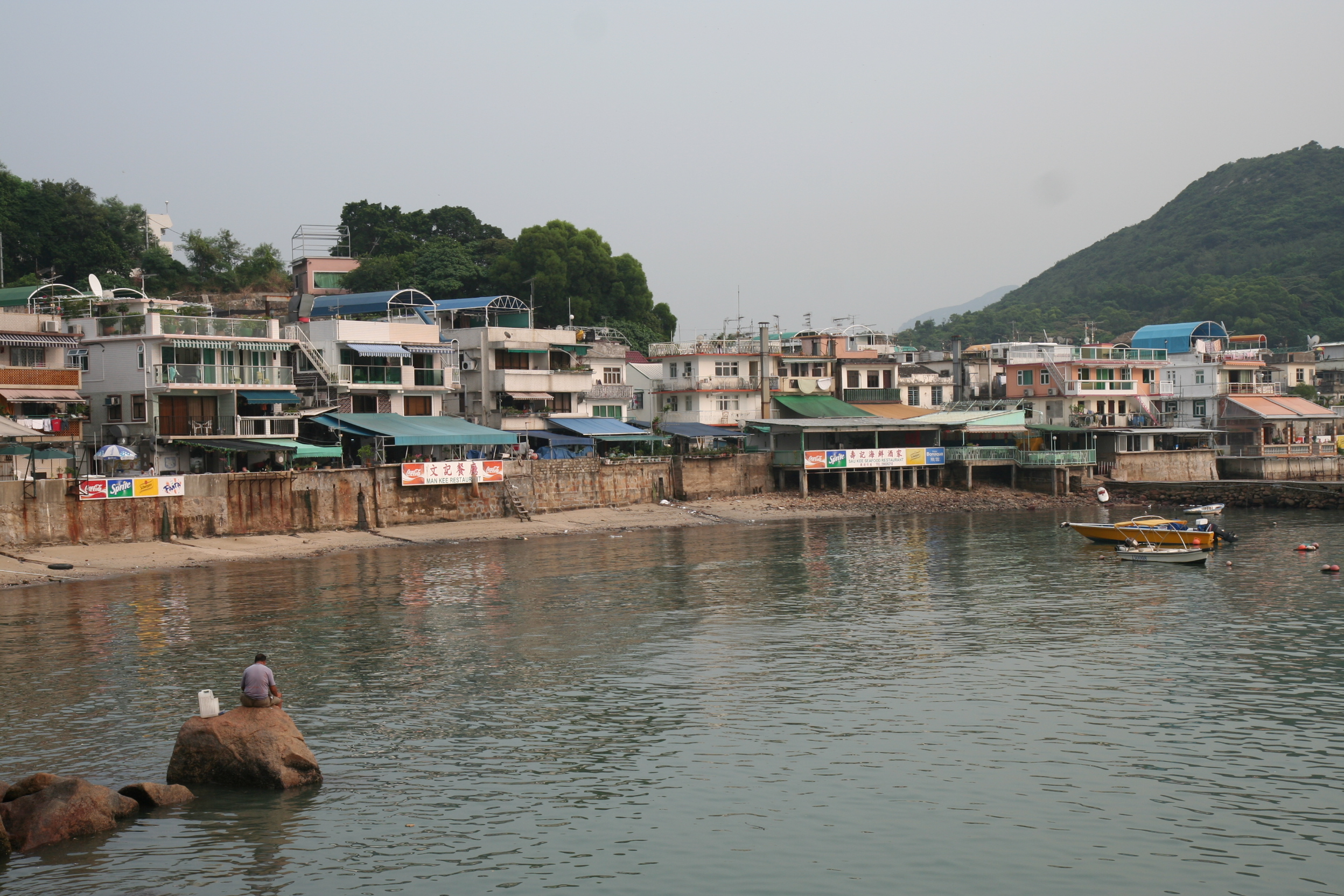 View to the Harbour of Lamma Island, Hong Kong